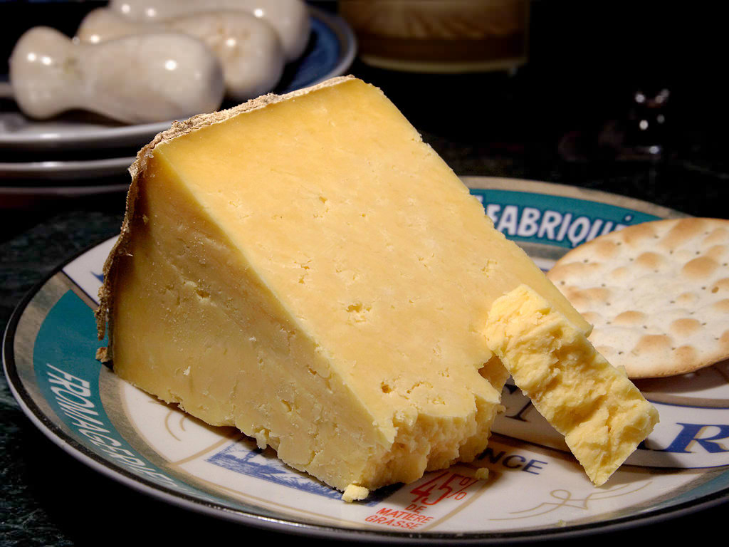 Cheshire Cheese. Photographer: Jon Sullivan